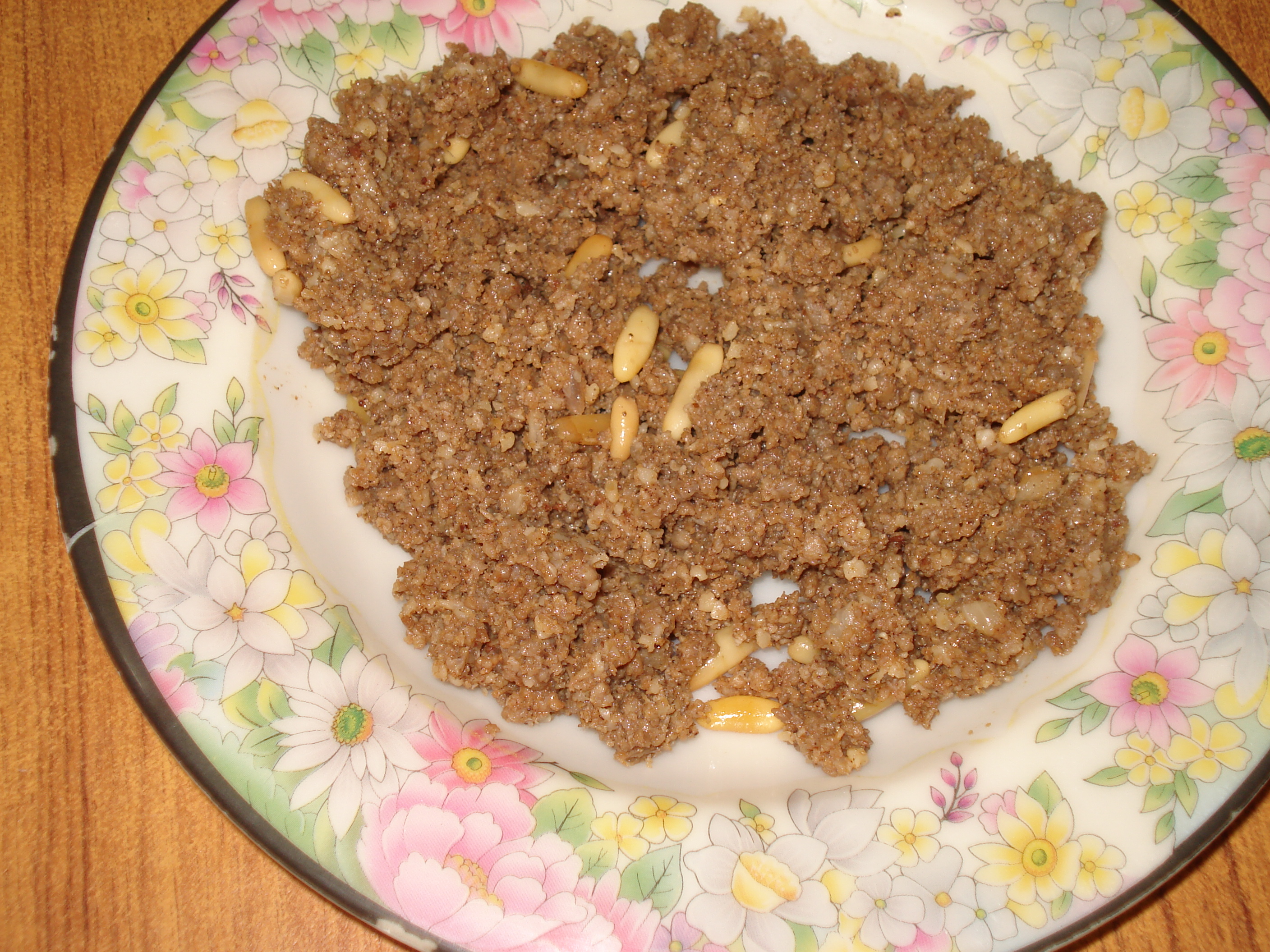 this show minced lamb cooked with nuts and spices for kibbe